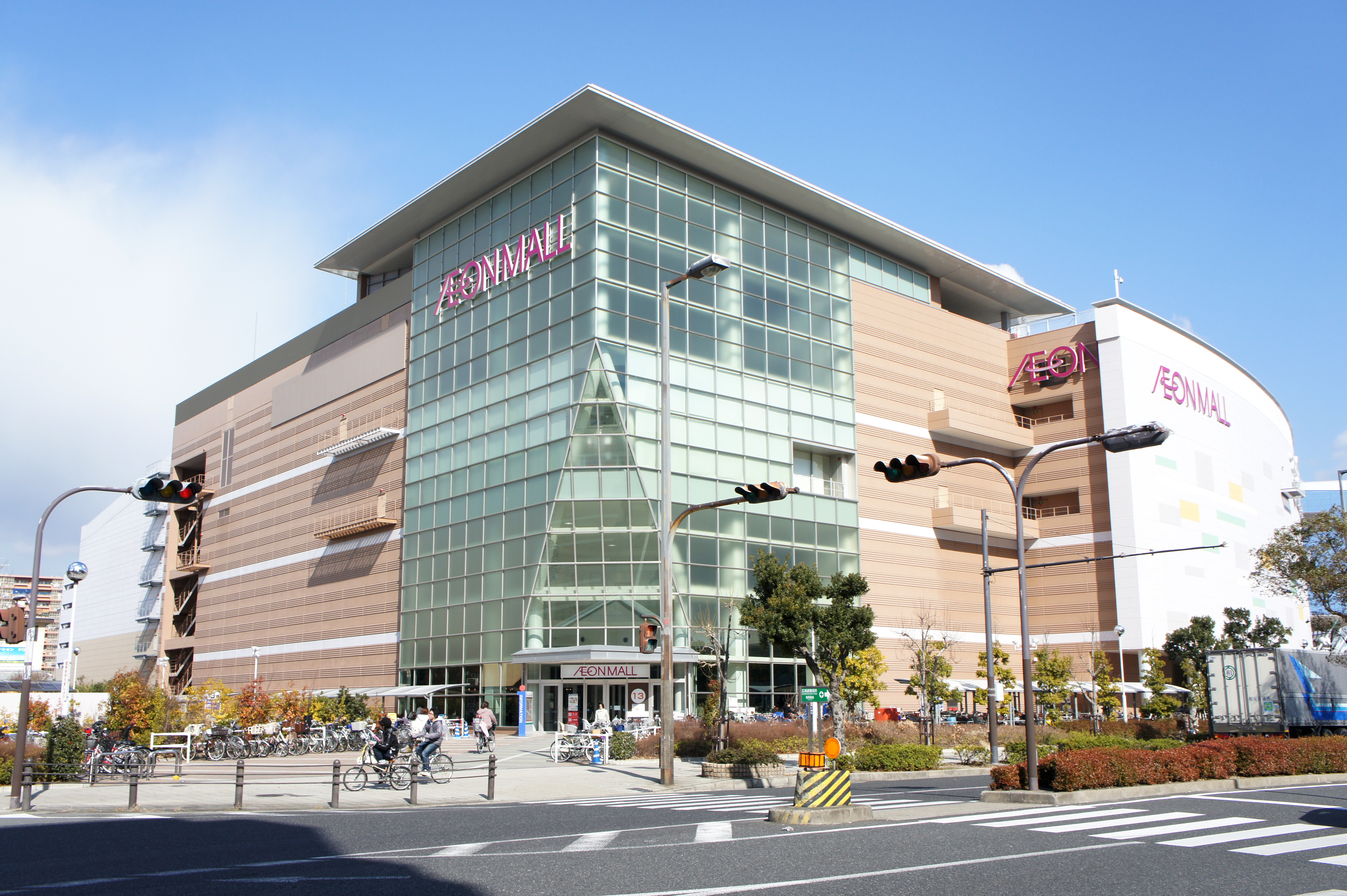 AEON MALL Tsurumi Ryokuchi, 4-17-1 Tsurumi Tsurumi-Ku Osaka-City Osaka Japan.